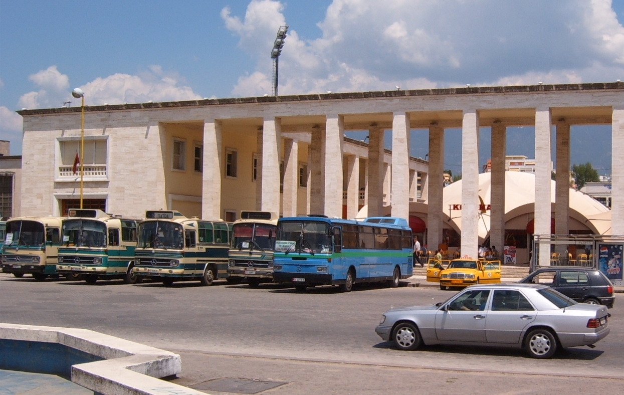 Buses in Tirana (Intercity)